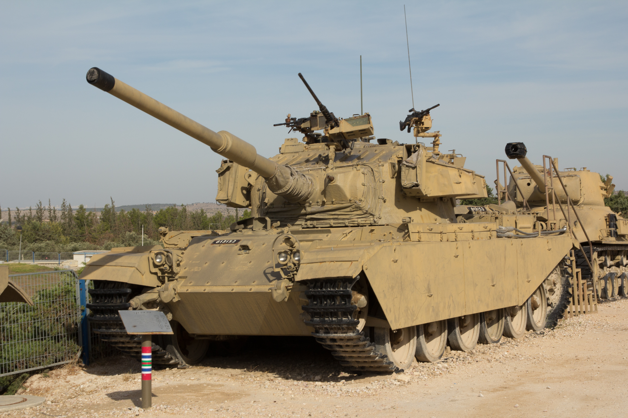 Israeli Centurion at the Yad LaShiryon armor museum at Latrun, Israel